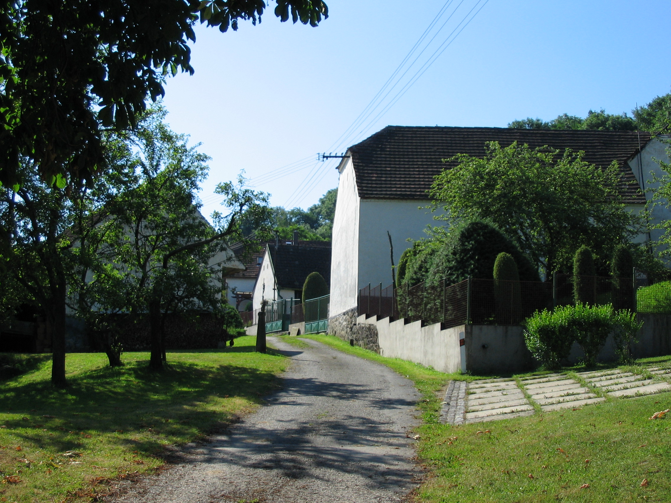 Milčice near Kraselov, Strakonice District, Czech Republic